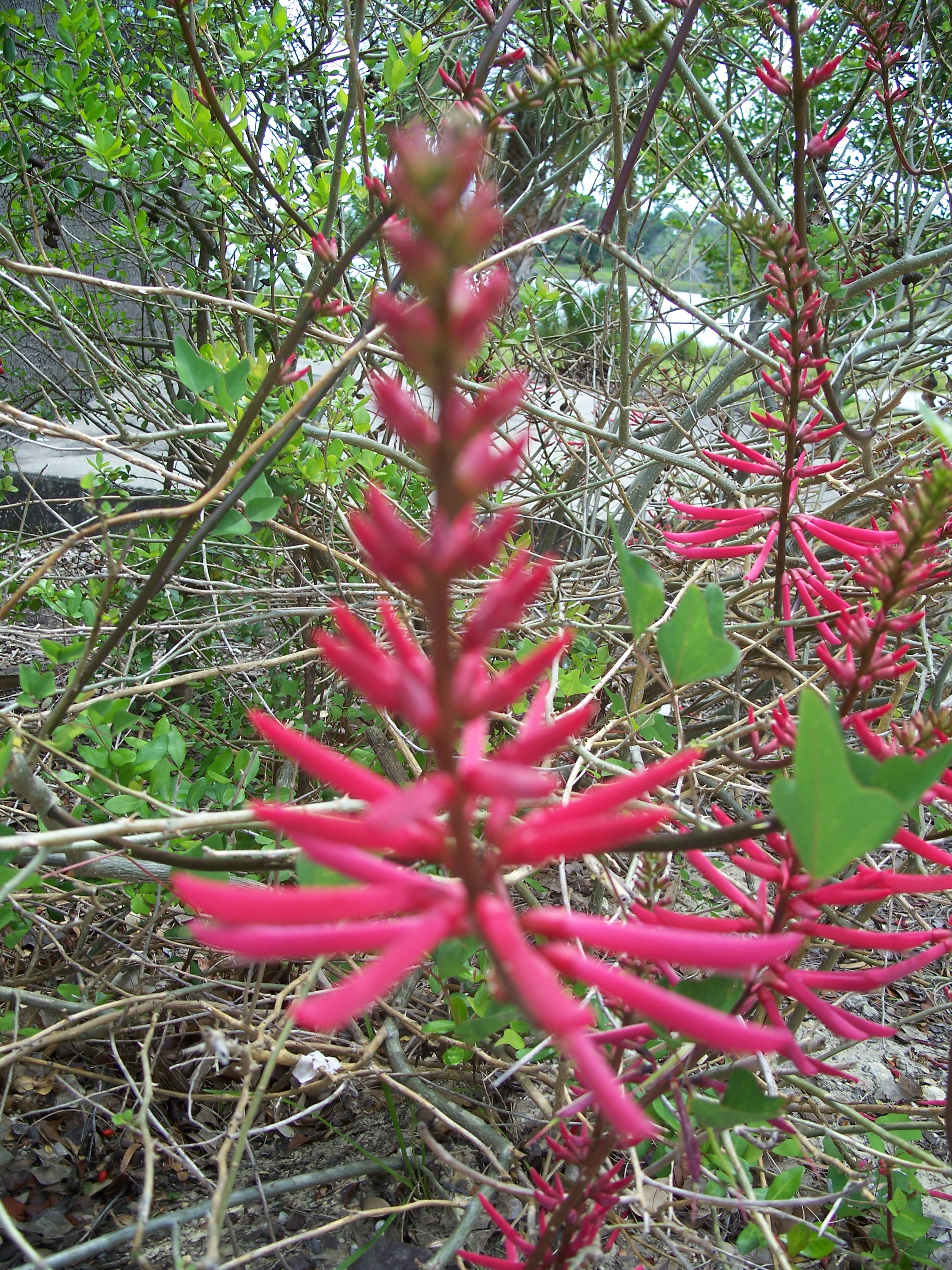 Coral bean (Erythrina herbacea) in the Crystal River Preserve State Park, in Crystal River, Florida